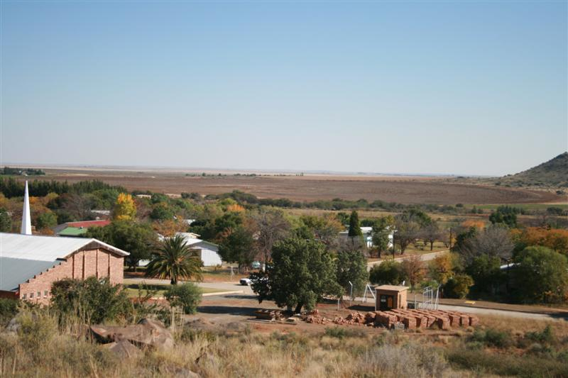 A view of the town of Orania, in South Africa.